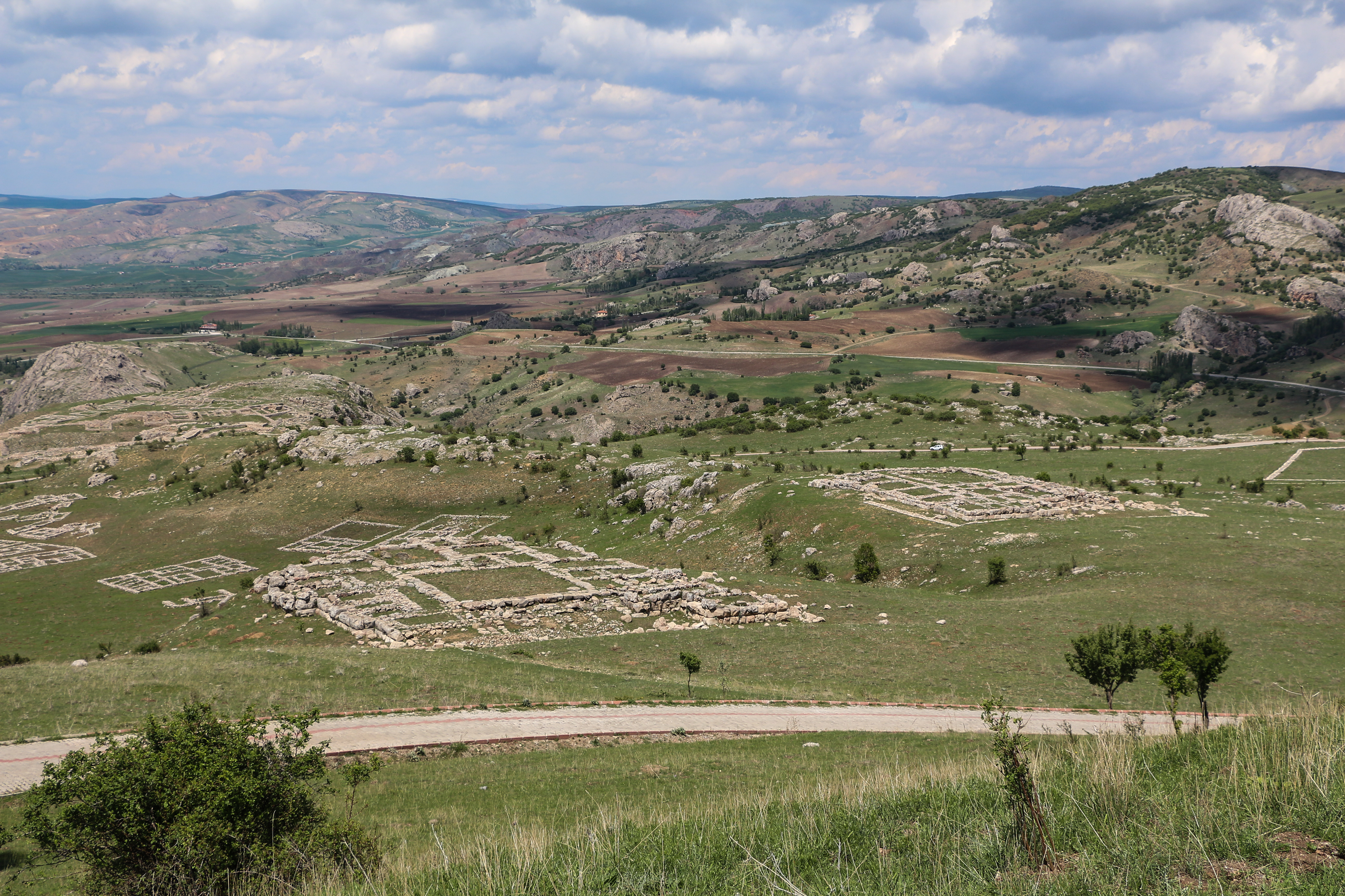 Upper City, Hattusa, Turkey